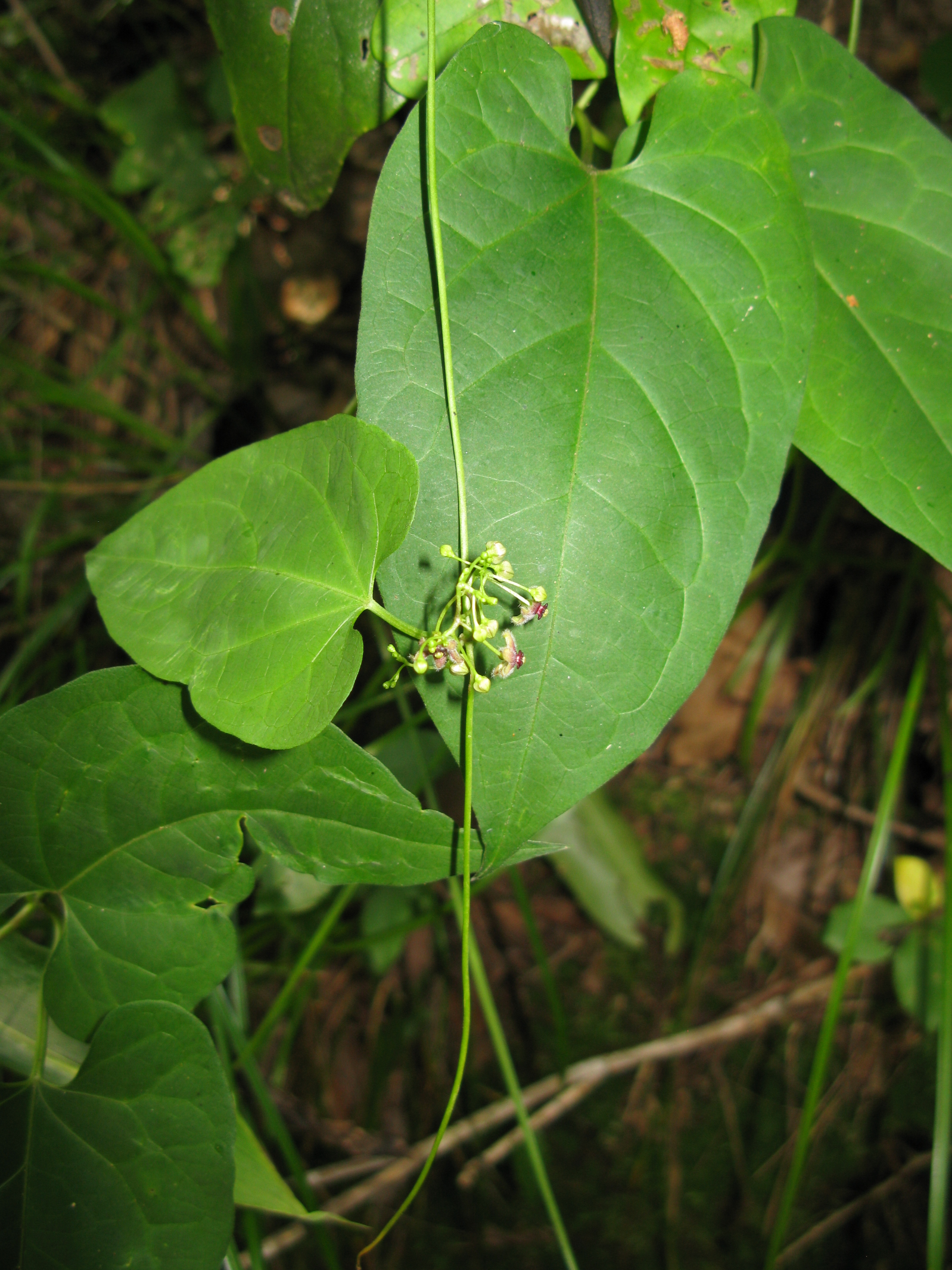 Tylophora aristolochioides, Aizu area, Fukushima pref., Japan